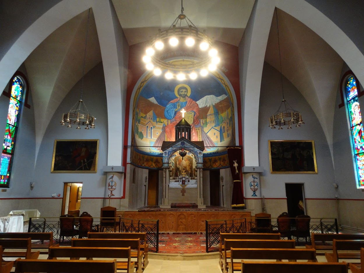 Surb Hakob Armenian Apostolic Church in Lyon